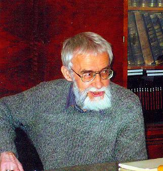 Bohdan Pociej, Polish musicologist, Warsaw 2005